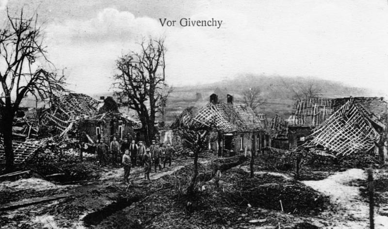 Vor Givenchy